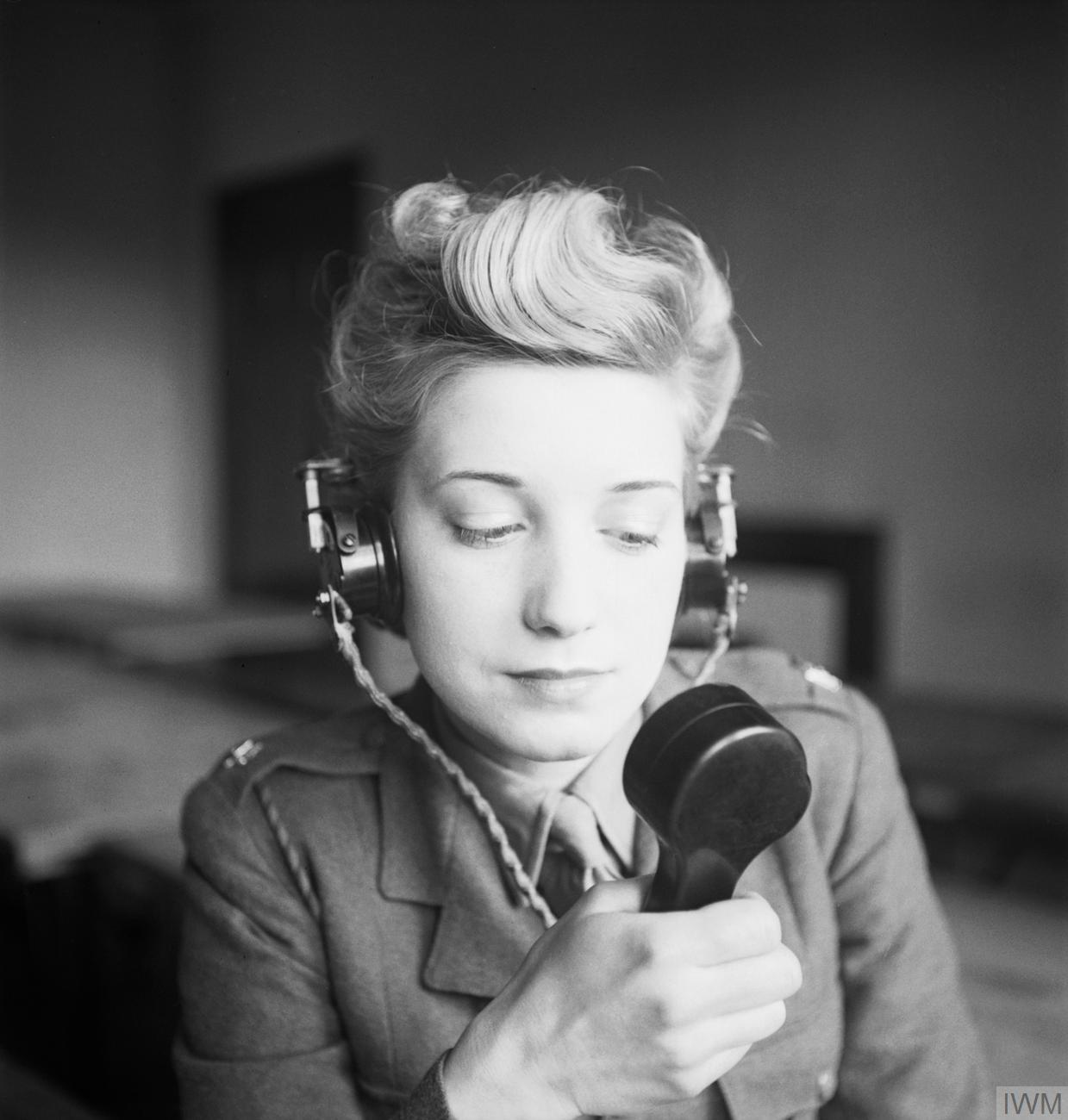 War Office Second World War Official Collection Pte Elizabeth Gourlay transmitting a radio message